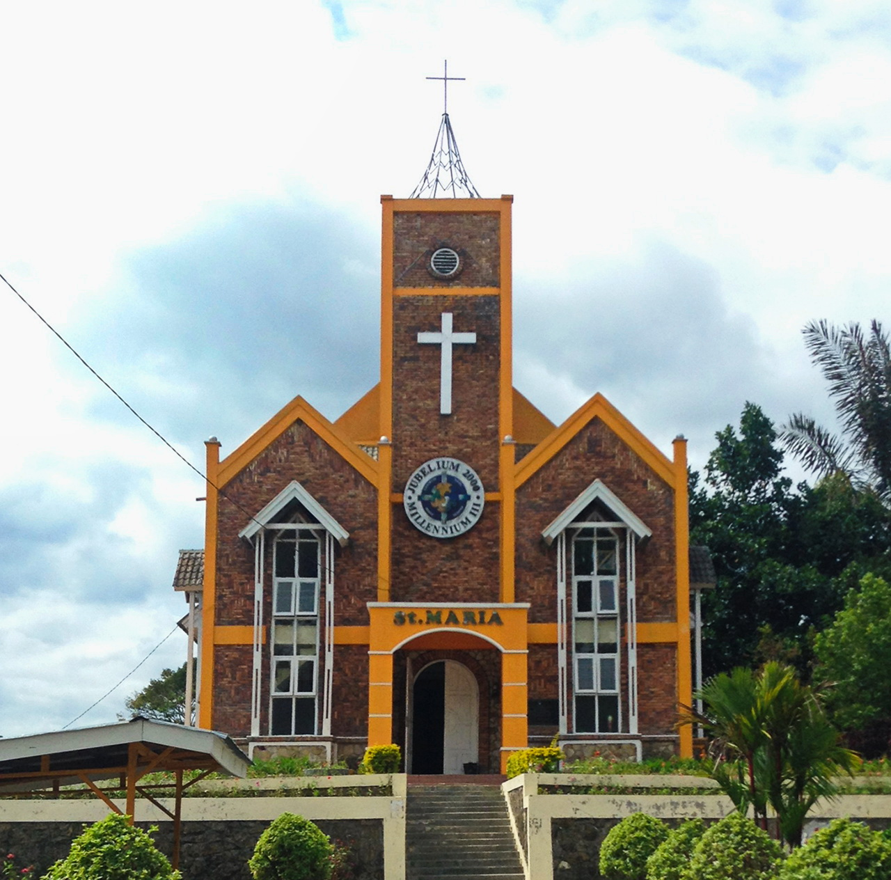 St. Maria Catholic Church